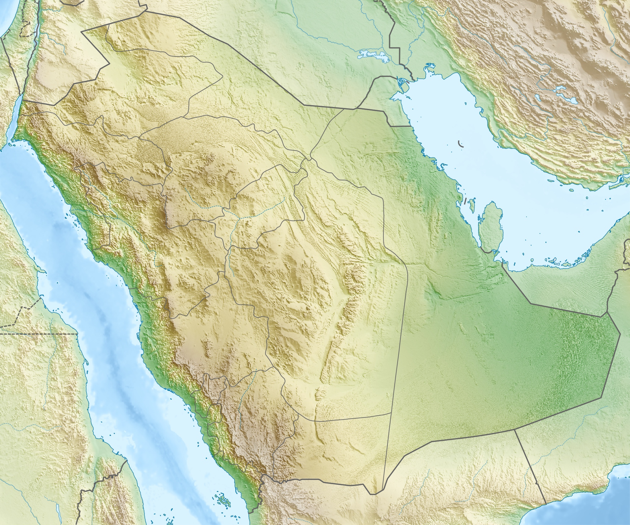 Physical location map of Saudi Arabia Equirectangular projection, N/S stretching 110 %. Geographic limits of the map: N: 32.5° N S: 16.0° N W: 34.2° E E: 56.0° E